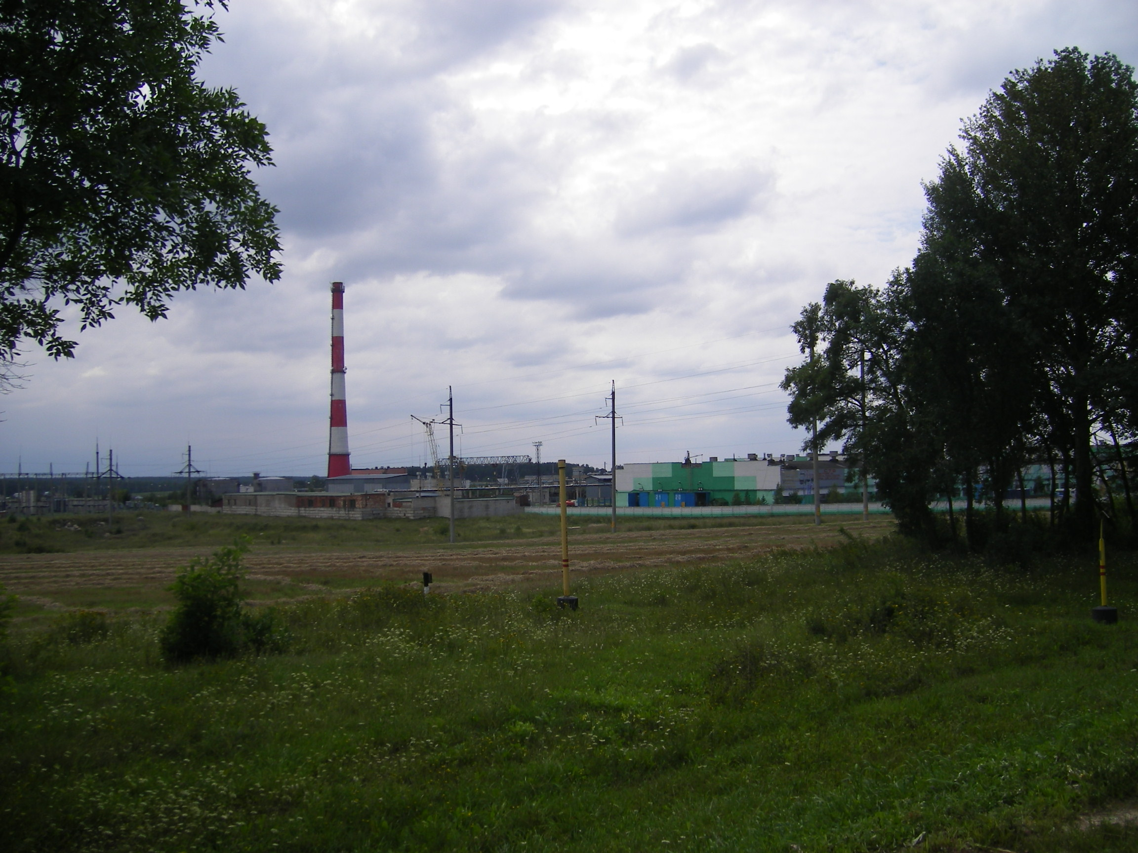 Stowbtsy,Factory on the road P2 near Sloboda